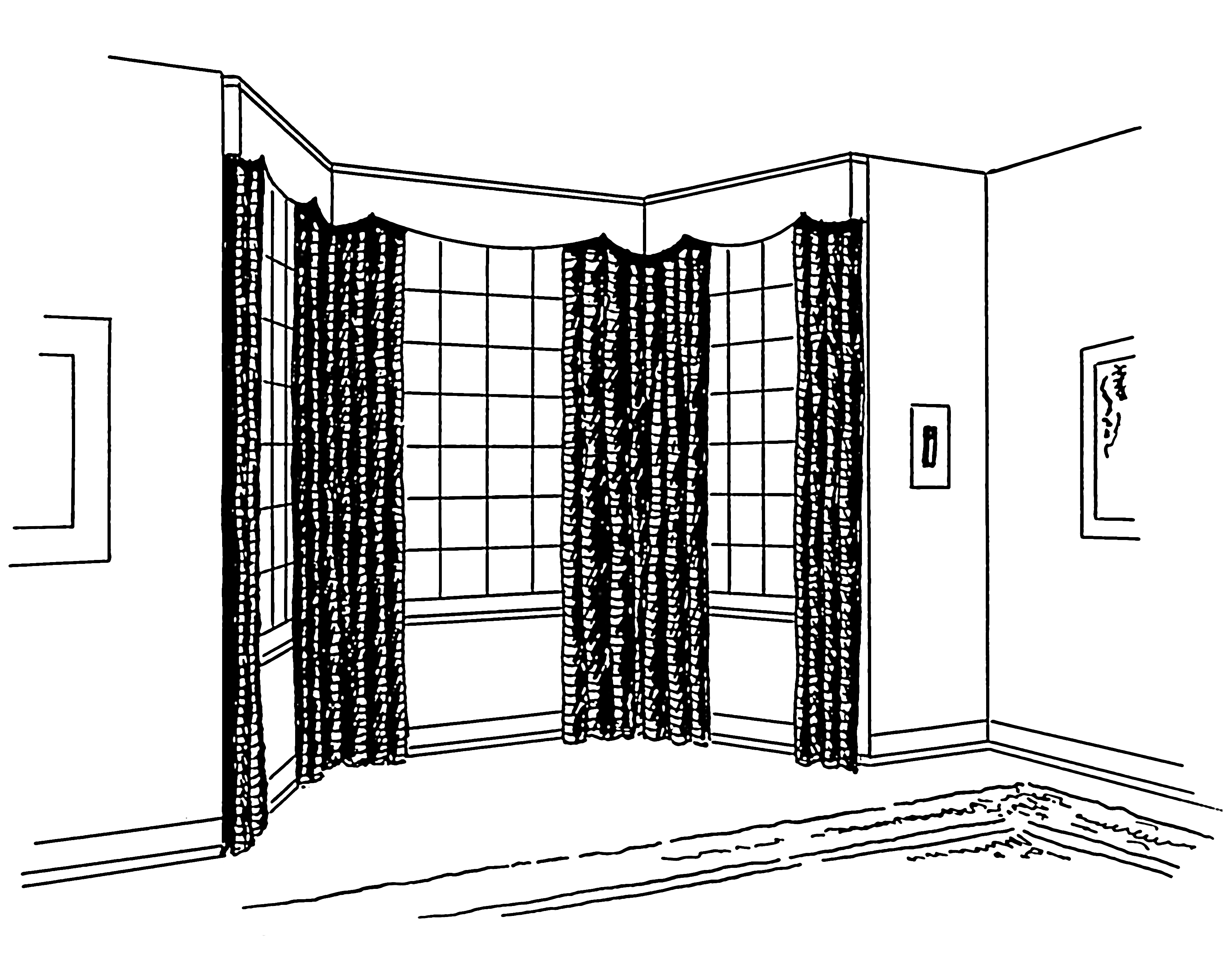 Line art drawing of a bay window.